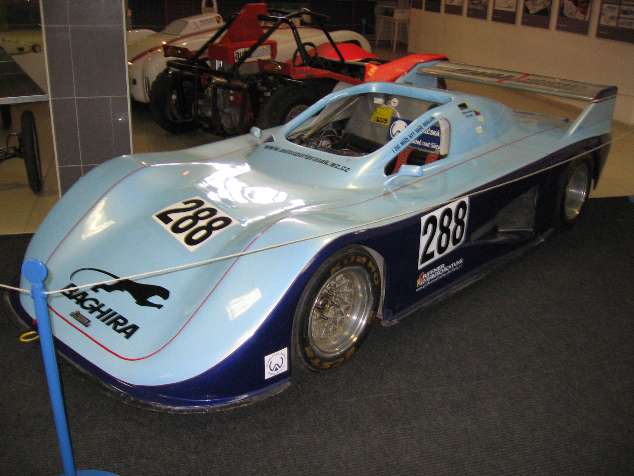 Škoda Baghira in Technical museum Tatra in Kopřivnice, Czech Republic